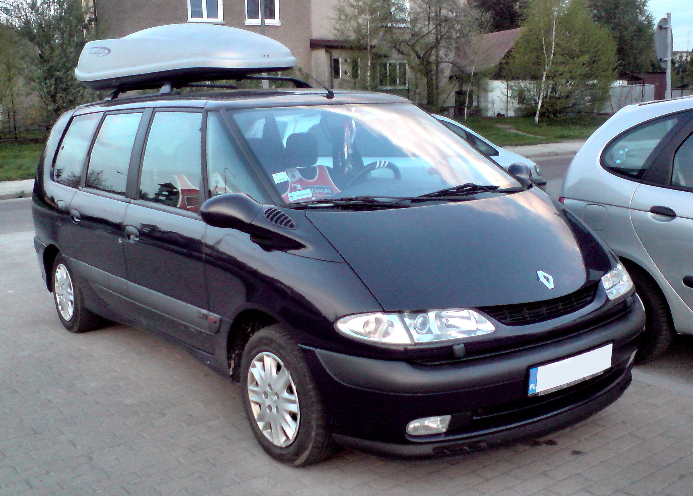 Renault Espace III seen in Jasło, Poland.